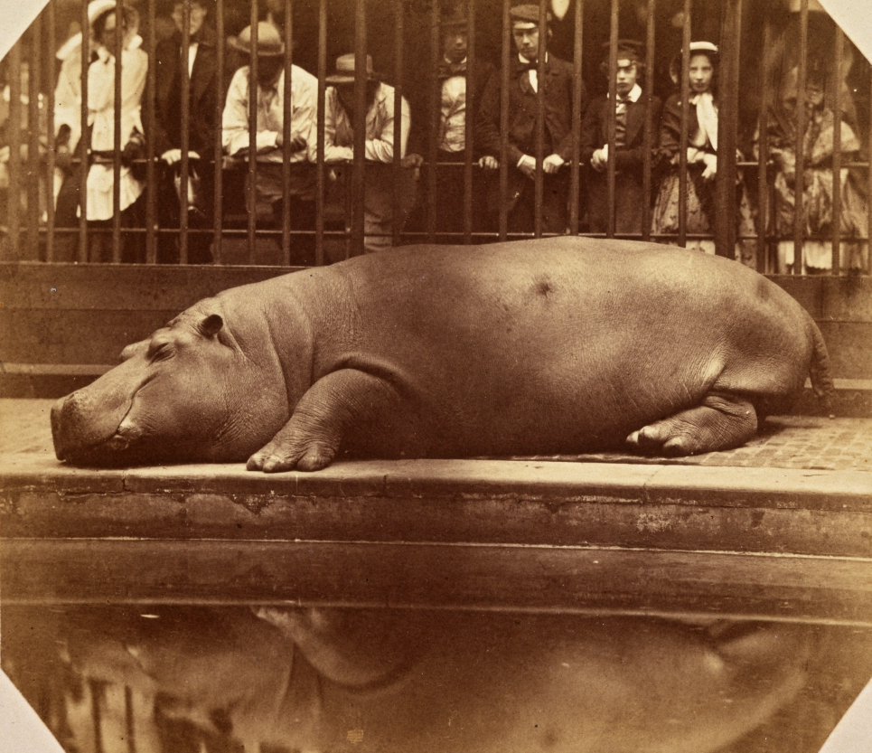 Accession Number: 1977:0742:0004 Maker: Count de Montizon (Spanish, 1822 - 1887) Title: The Hippopotamus at the Zoological Gardens, Regent's Park, London Date: ca. 1855 Medium: albumen print Dimensions: Image: 11.1 x 12.7 cm (4 3/8 x 5 in.), Mount: 23 x 29 cm (9 1/16 x 11 7/16 in.) George Eastman House Collection About the Collection · Blog · Reproductions & Image Licensing